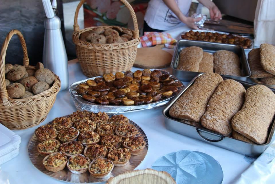 Reconstruction of prehistoric and classical antiquity cooking practices with plant ingredients from the Archaeobotanical Garden of the Museum of Vojvodina – Srpski (latinica): Rekonstrukcija praistorijskih i antičkih obroka od sastojaka iz Arheobotaničke bašte Muzeja Vojvodine